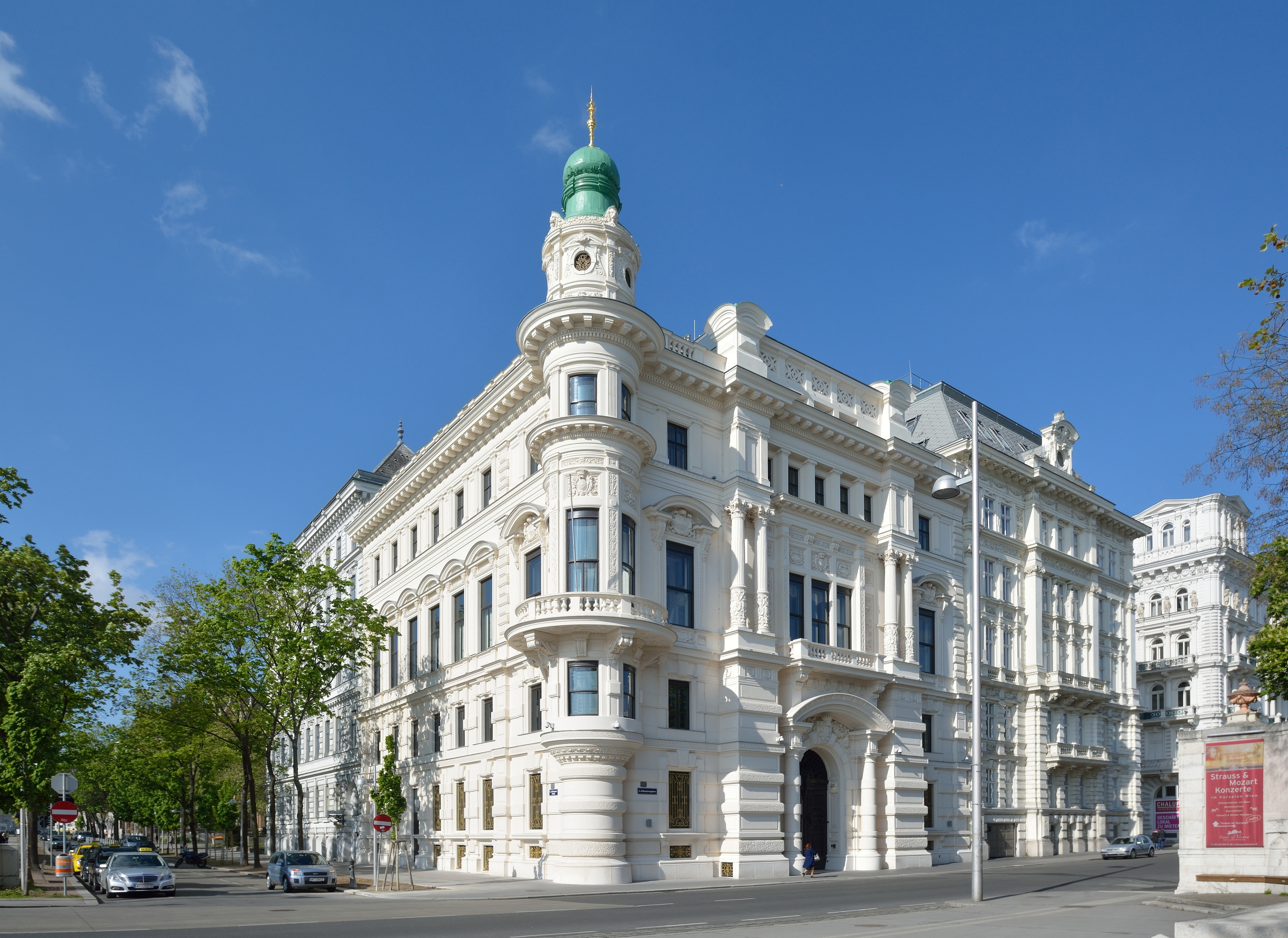 Palais Larisch von Moennich, since 1970 embassy of Irak, Johannesgasse 26 / Lothringerstraße 13, 1st district of Vienna.